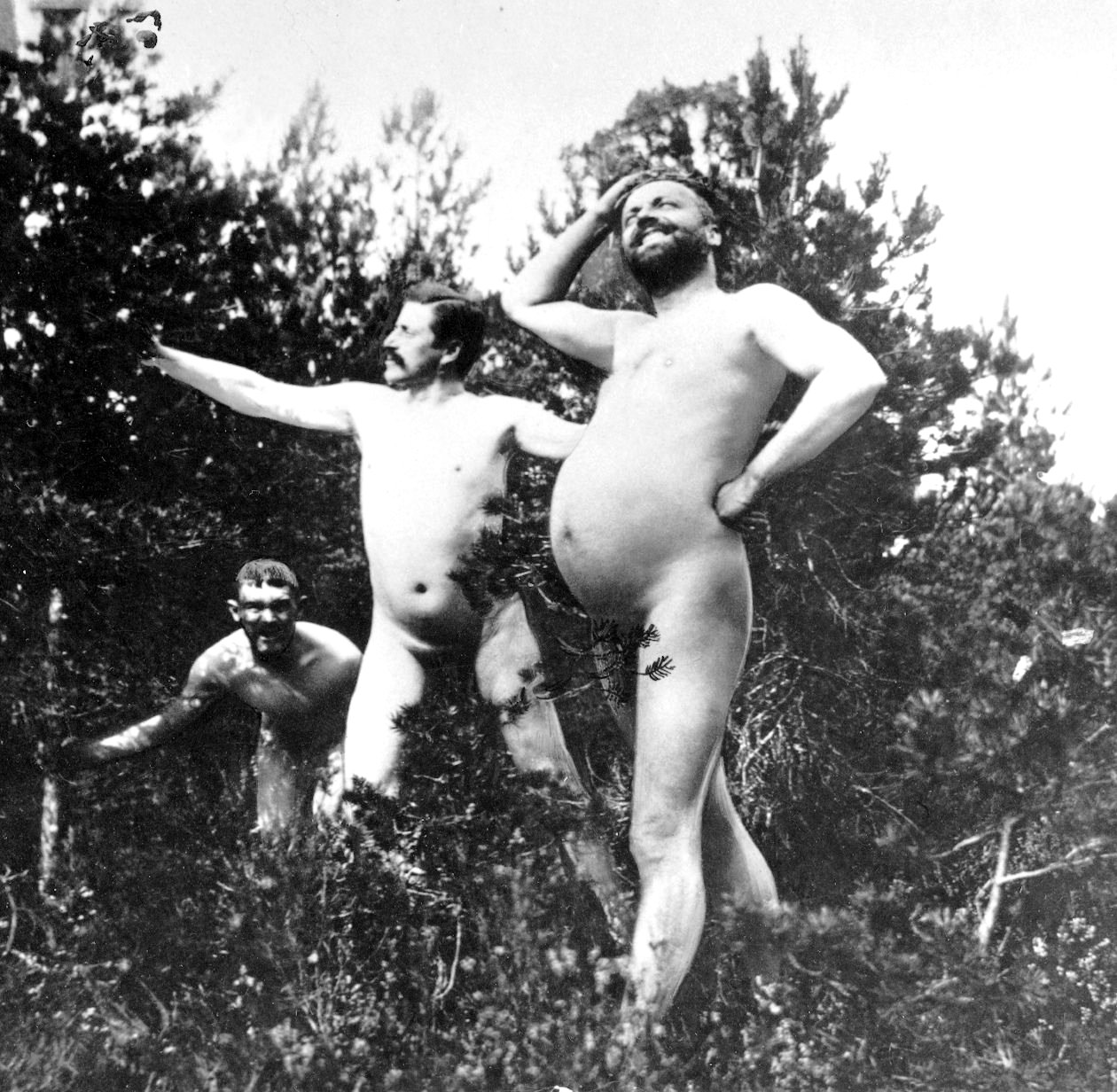 Happy days at Sandhamn. Verner von Heidenstam and Gustaf Fröding (foreground, left and right respectively) pose with Albert Engström (background).